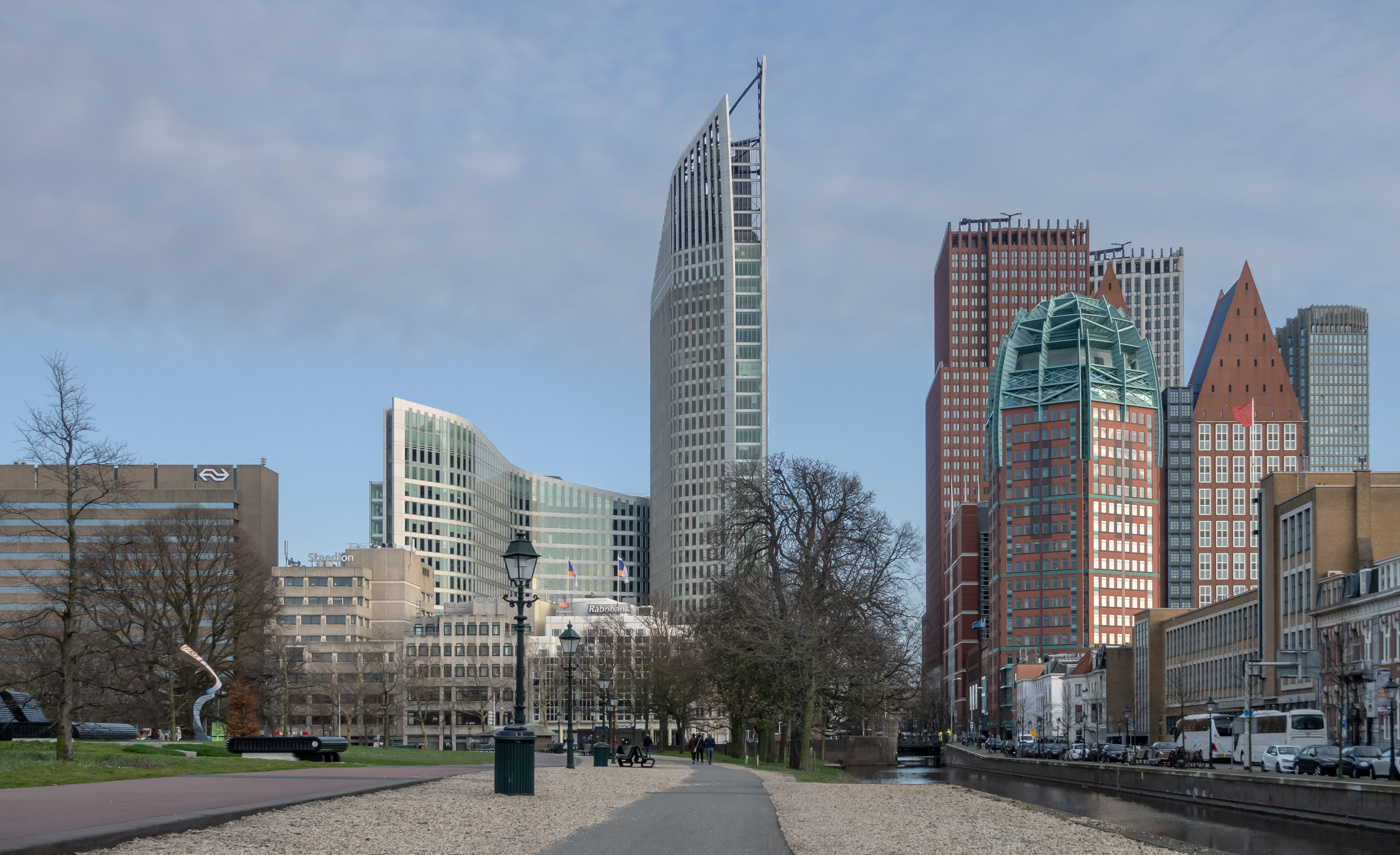 The Hague, skyline from Laan van Reagan en Gorbatsjov